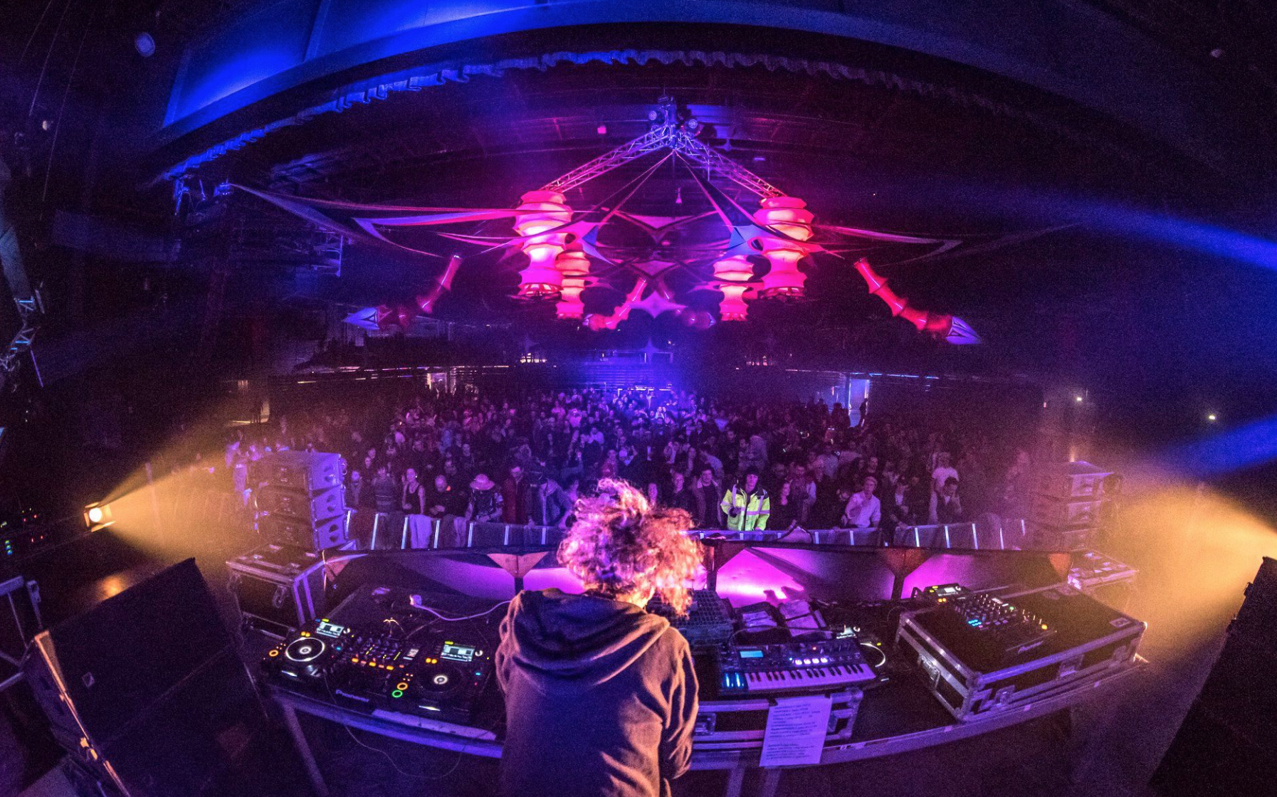 Gaudi, tour 2018, Grenoble (France)